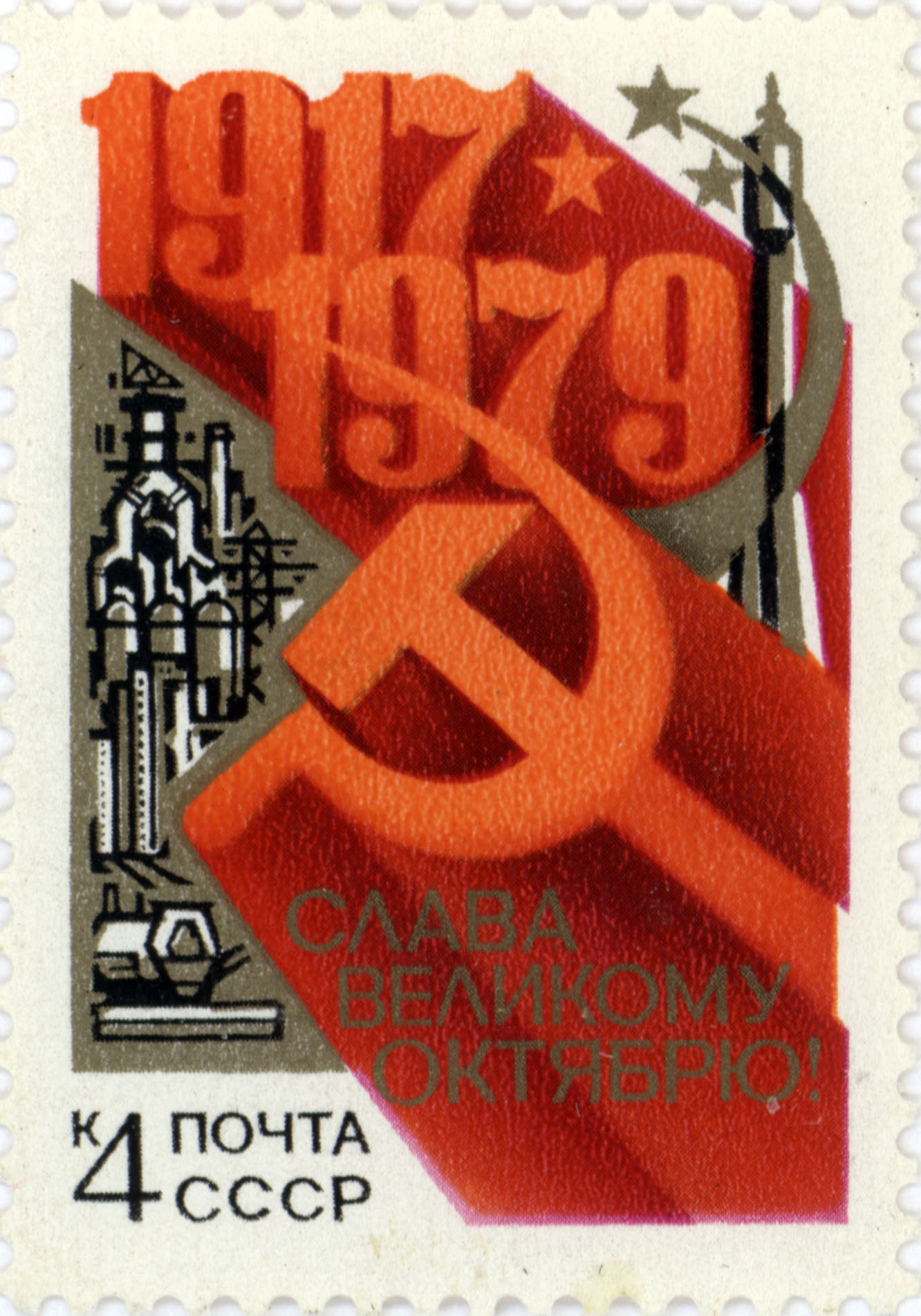 USSR postage stamp. 1979. 62nd Anniversary of October Revolution